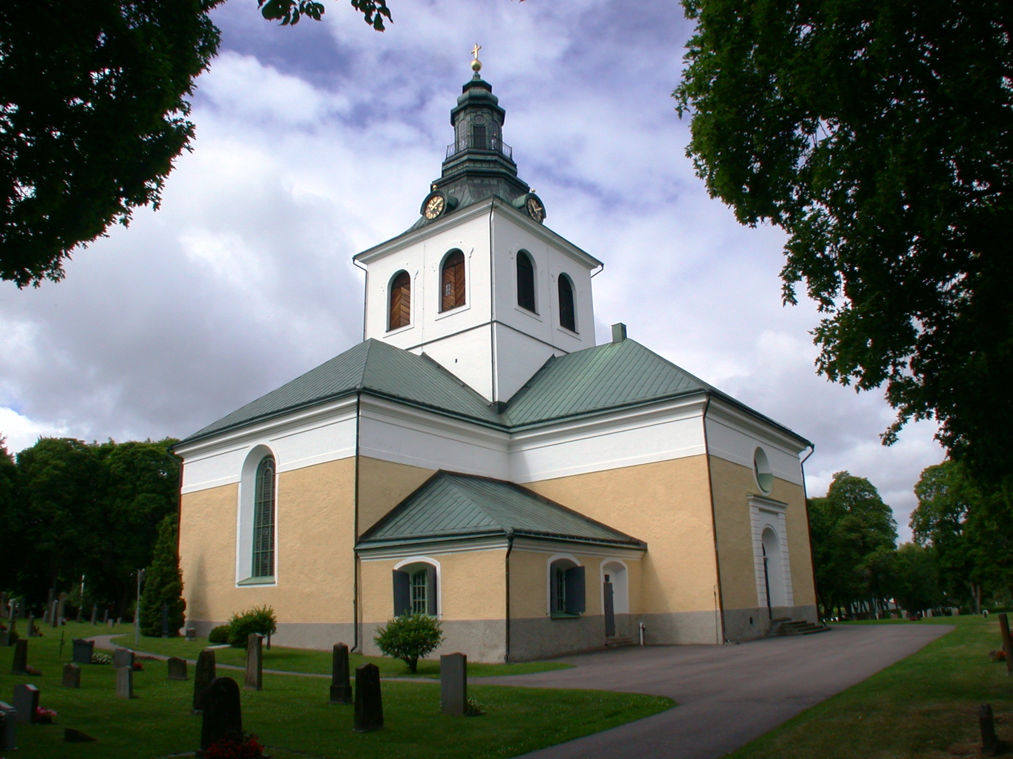 Västerfärnebo church, Diocese of Västerås, Sala, Sweden